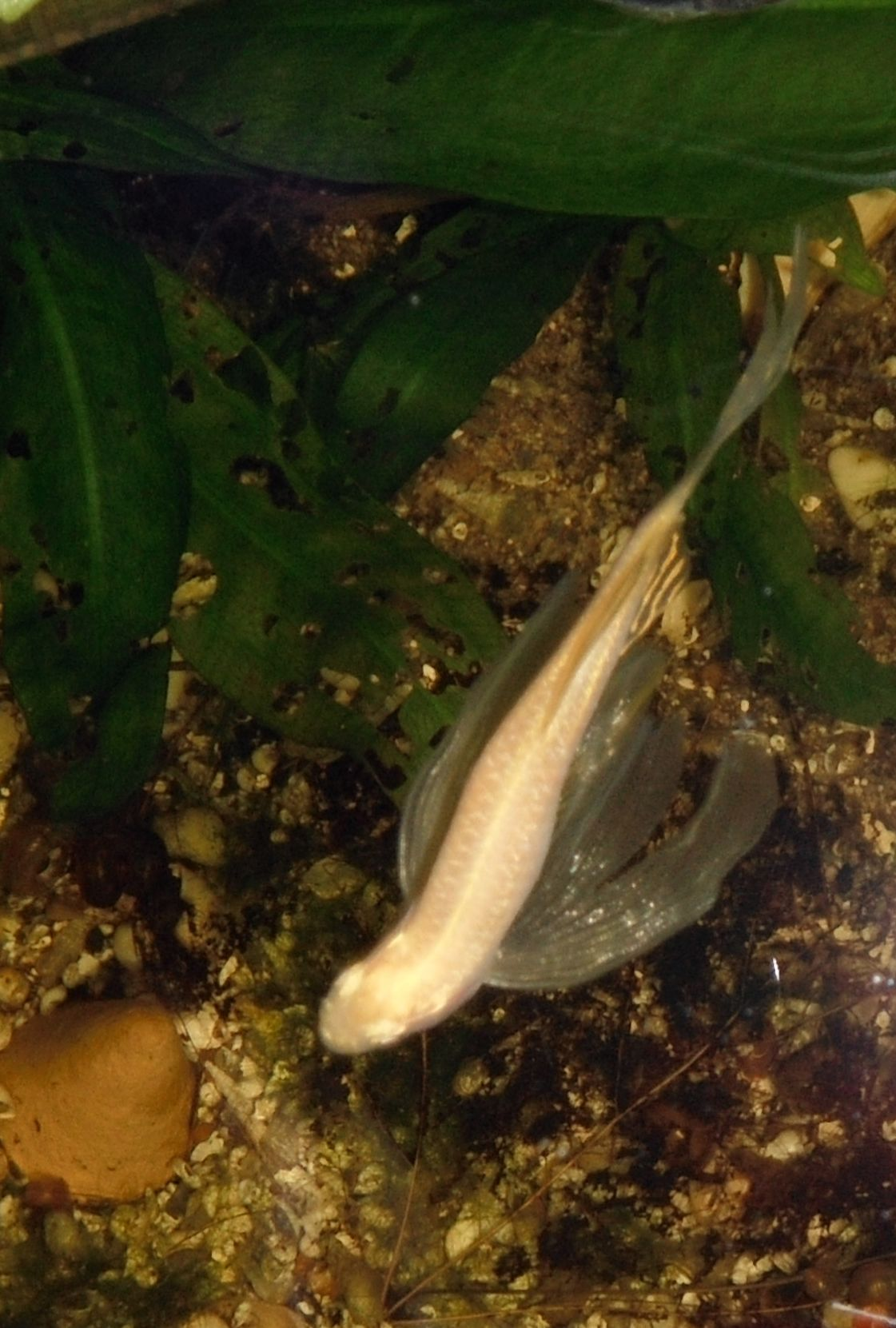 Danio rerio with scoliosis(Zebra danio, genetically modified long-fin form). Aquarium fish. Overhead view.